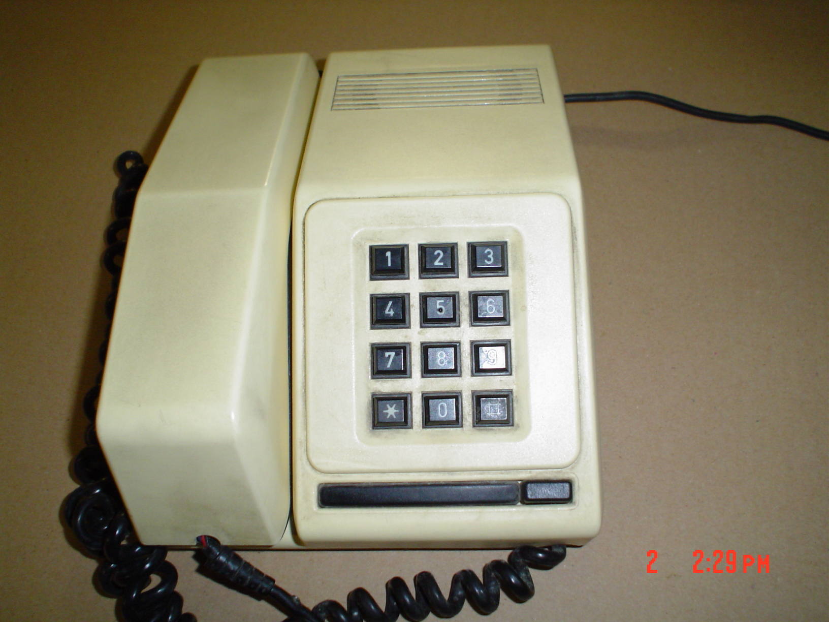 Telephone